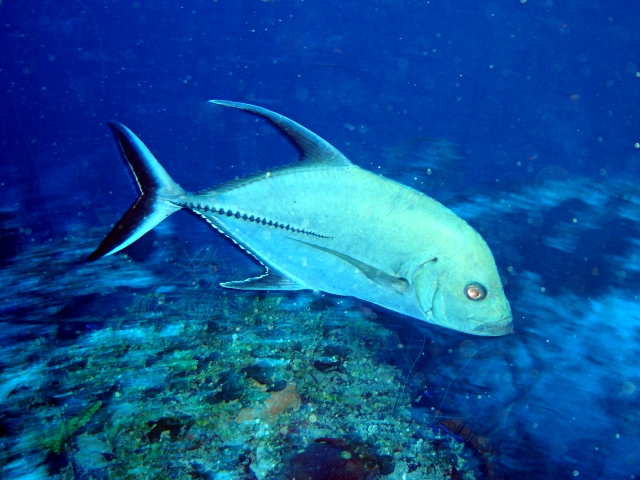 Corcovado or Black Jack (Caranx lugubris)